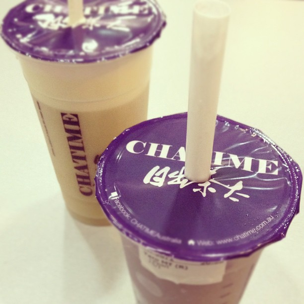 Drinks from Chatime Australia.